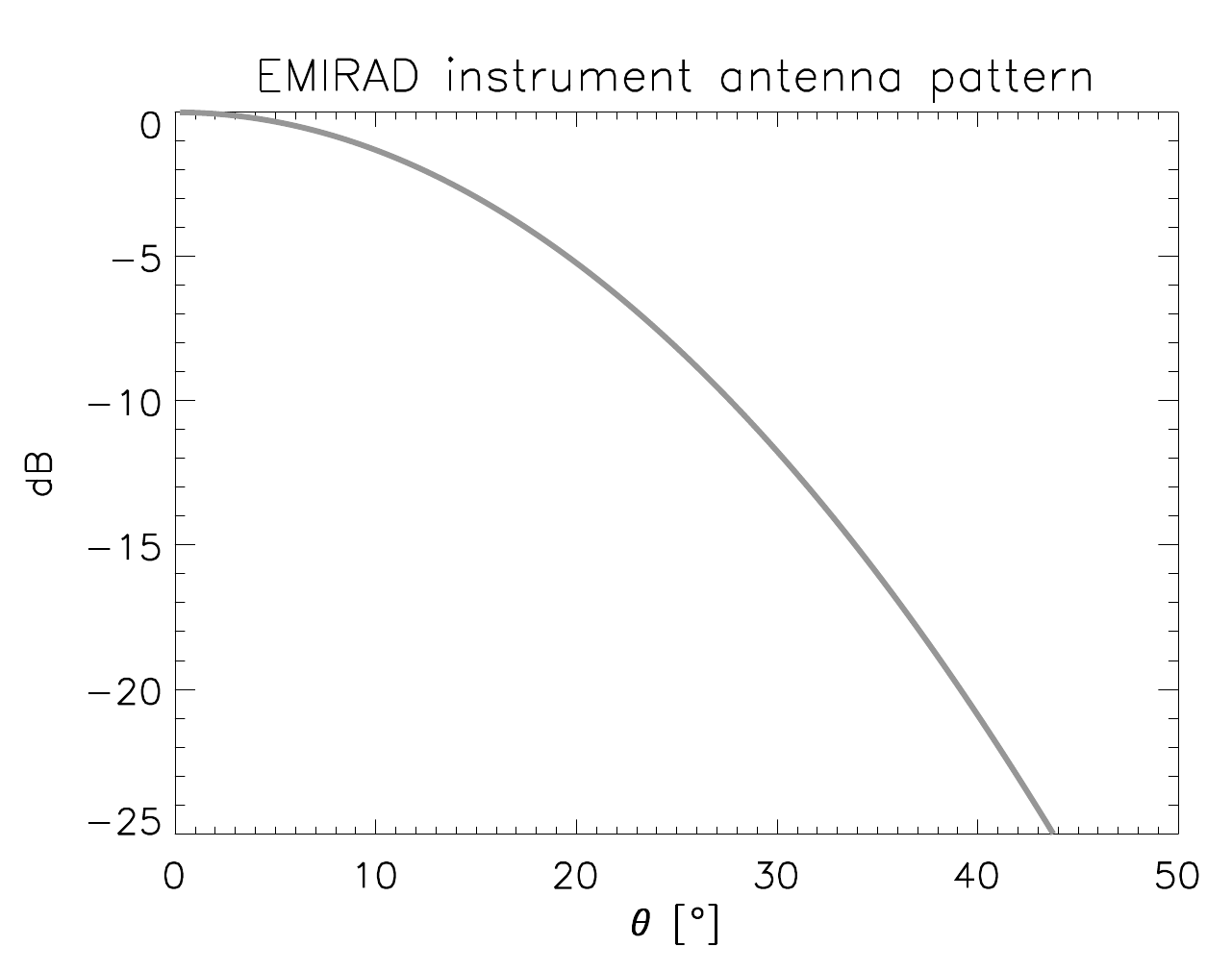 EMIRAD II instrument antenna pattern. Reference: N. Skou, S. S. Sobjaerg, and J. Balling (2007). “EMIRAD-2 and its use in the CoSMOS Campaigns,” Electromagnetic Systems Section, Danish National Space Center, Technical University of Denmark, Tech. Rep. ESTEC Contract No. 18924/05/NL/FF.